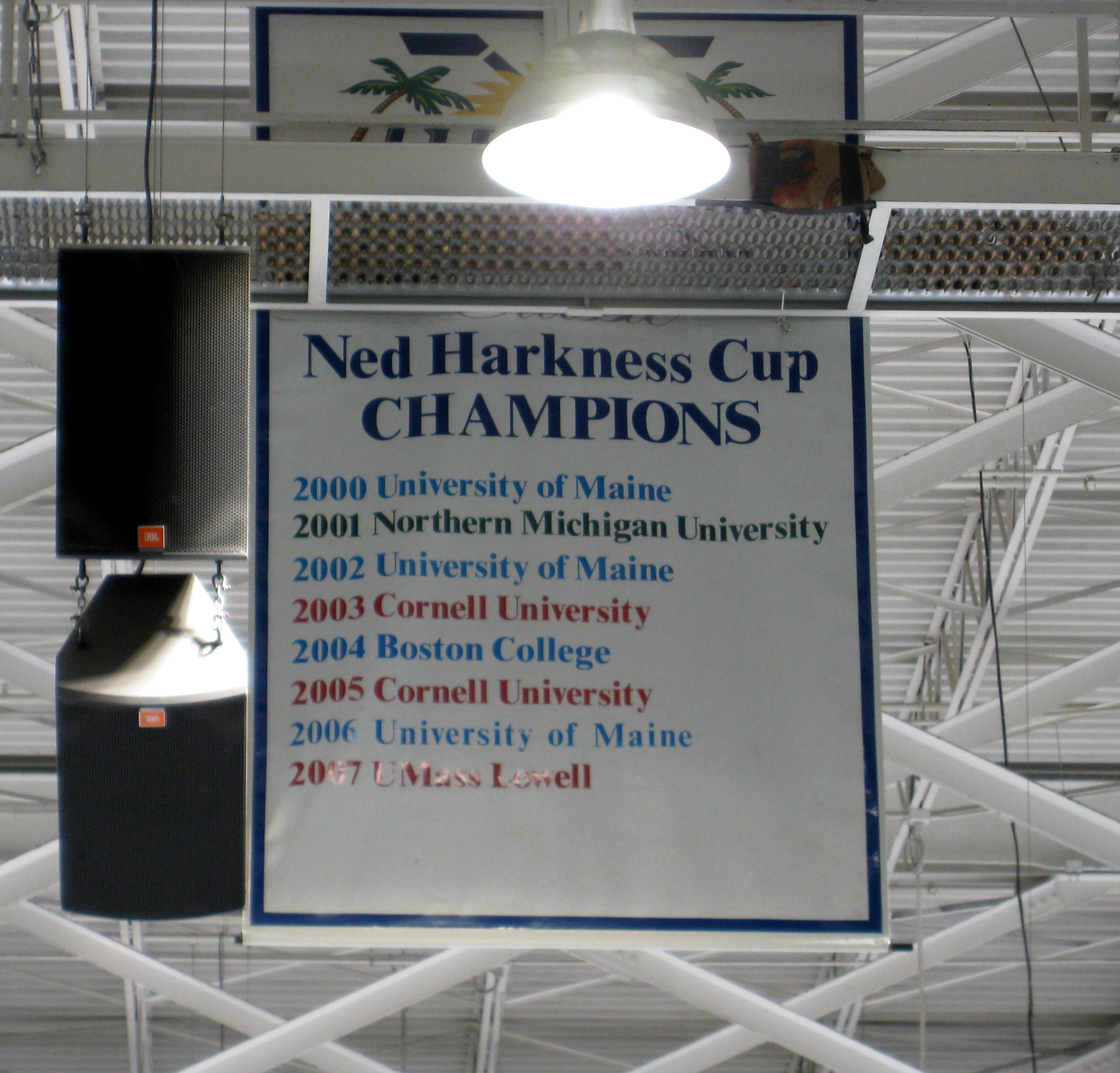 Florida College Hockey Classic winners banner, hanging in rafters Germain Arena, Estero, Florida, United States